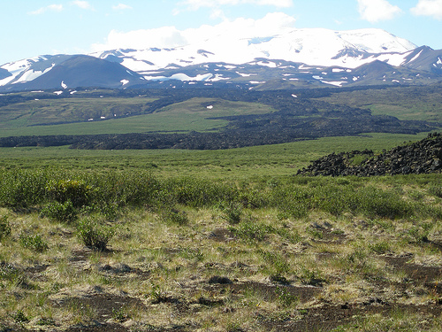 lava flows comming out of Mount Edziza